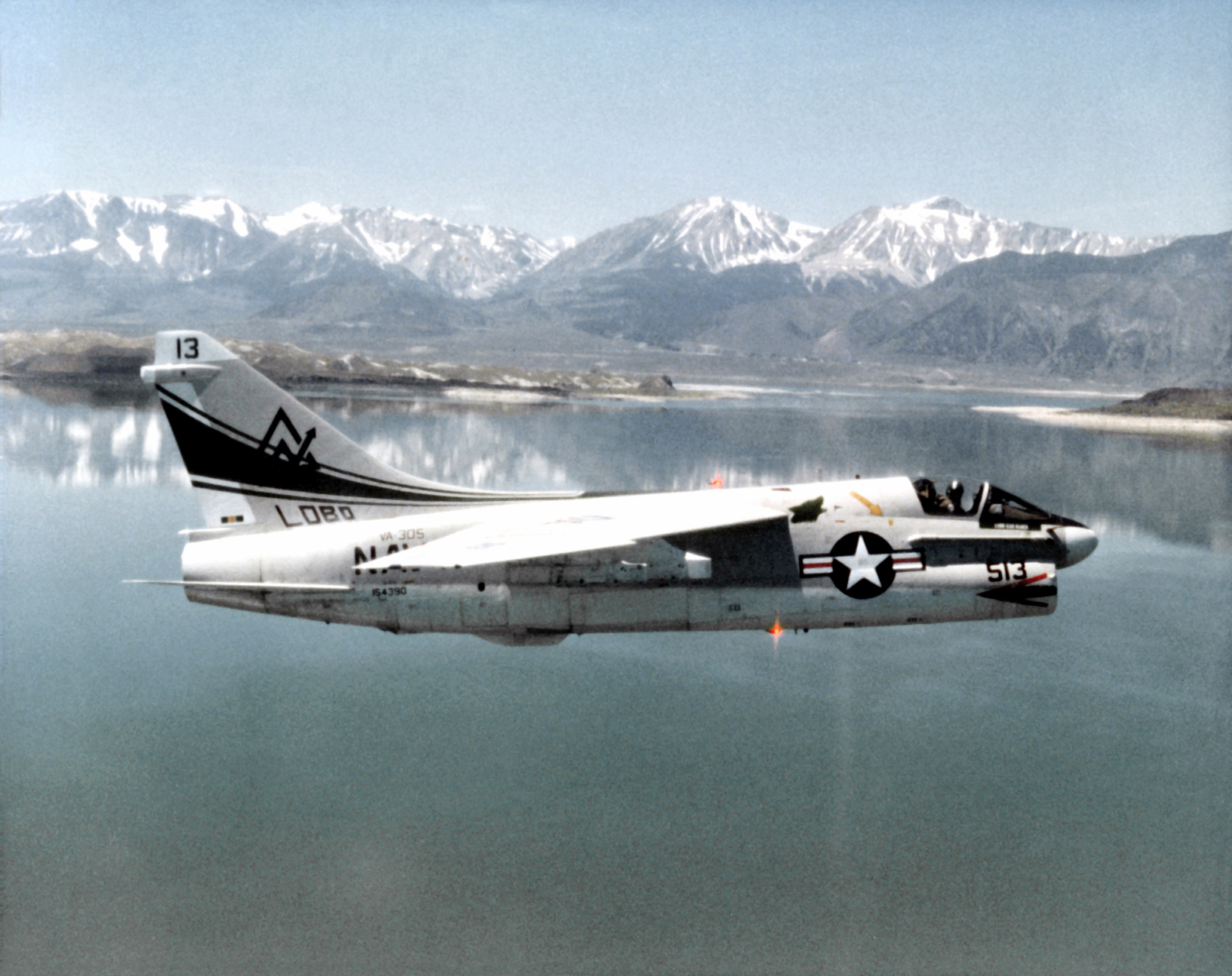 A U.S. Naval Air Reserve LTV A-7B Corsair II aircraft from attack squadron VA-305 Lobos in flight, in 1981.